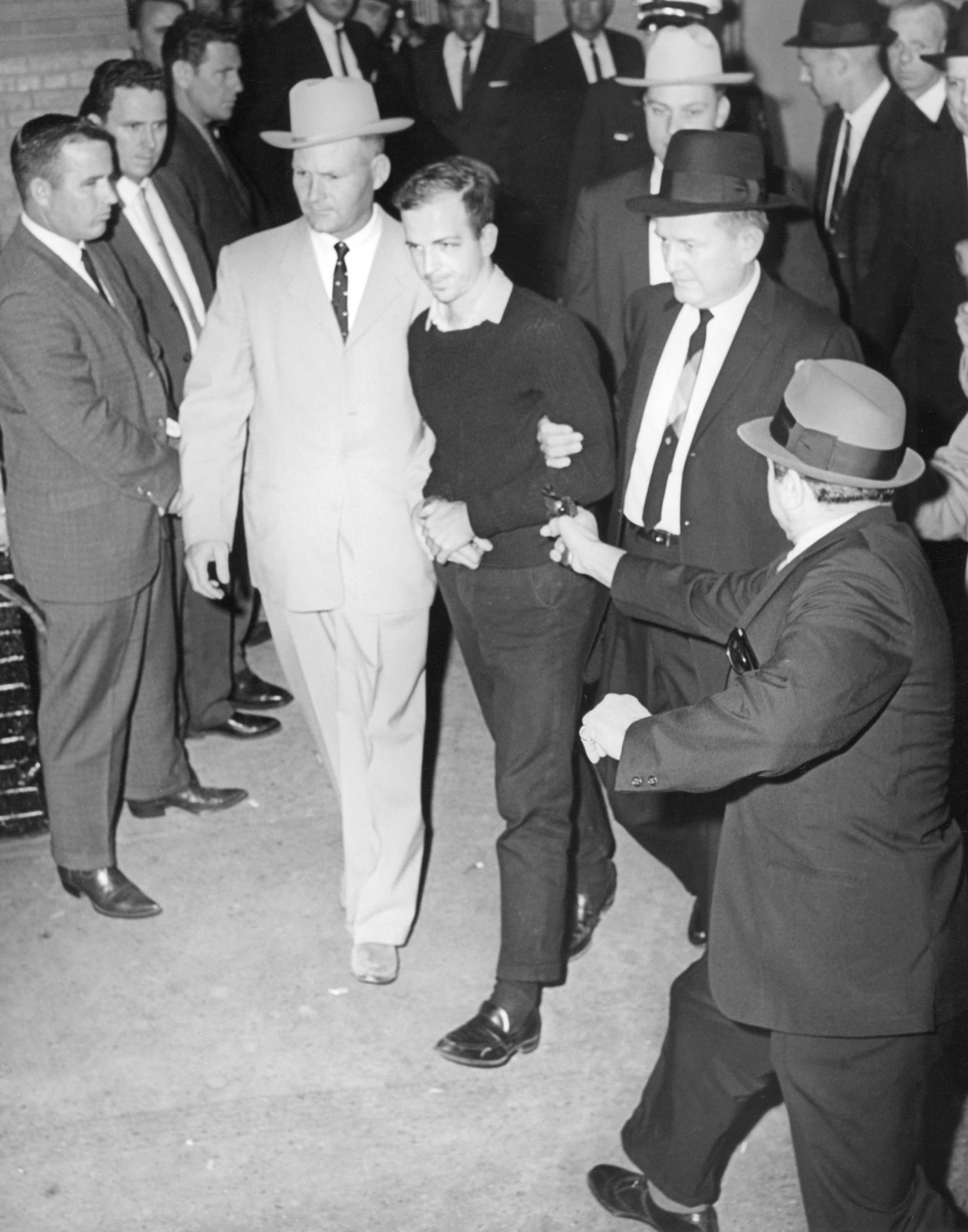 Was used on the front page of the Dallas Morning News the next day[1]; 1963 issues of that newspaper apparently did not have their copyright renewed. Could not find any relevant renewals on from the Dallas Morning News.